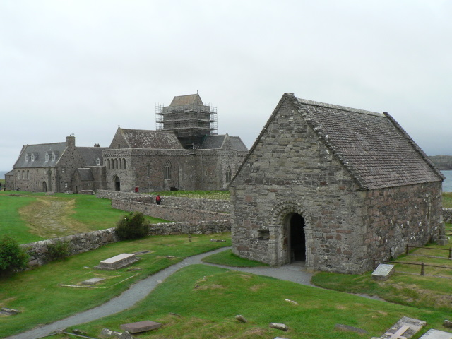 Isle of Iona: St. Oran's Chapel and the abbey A small mound in the churchyard of 921135 provides this viewpoint of the chapel with 921166 in the background.